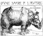 Logo used by the Rhinoceros Party of Canada in the 20th century. Taken from the 1515 ink drawing by the German painter Albrecht Dürer, it adds the French words "d'une mare a l'autre", roughly meaning "from a pond to another".